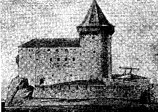 Raseborg Castle anno 1500; oldest known picture of the castle